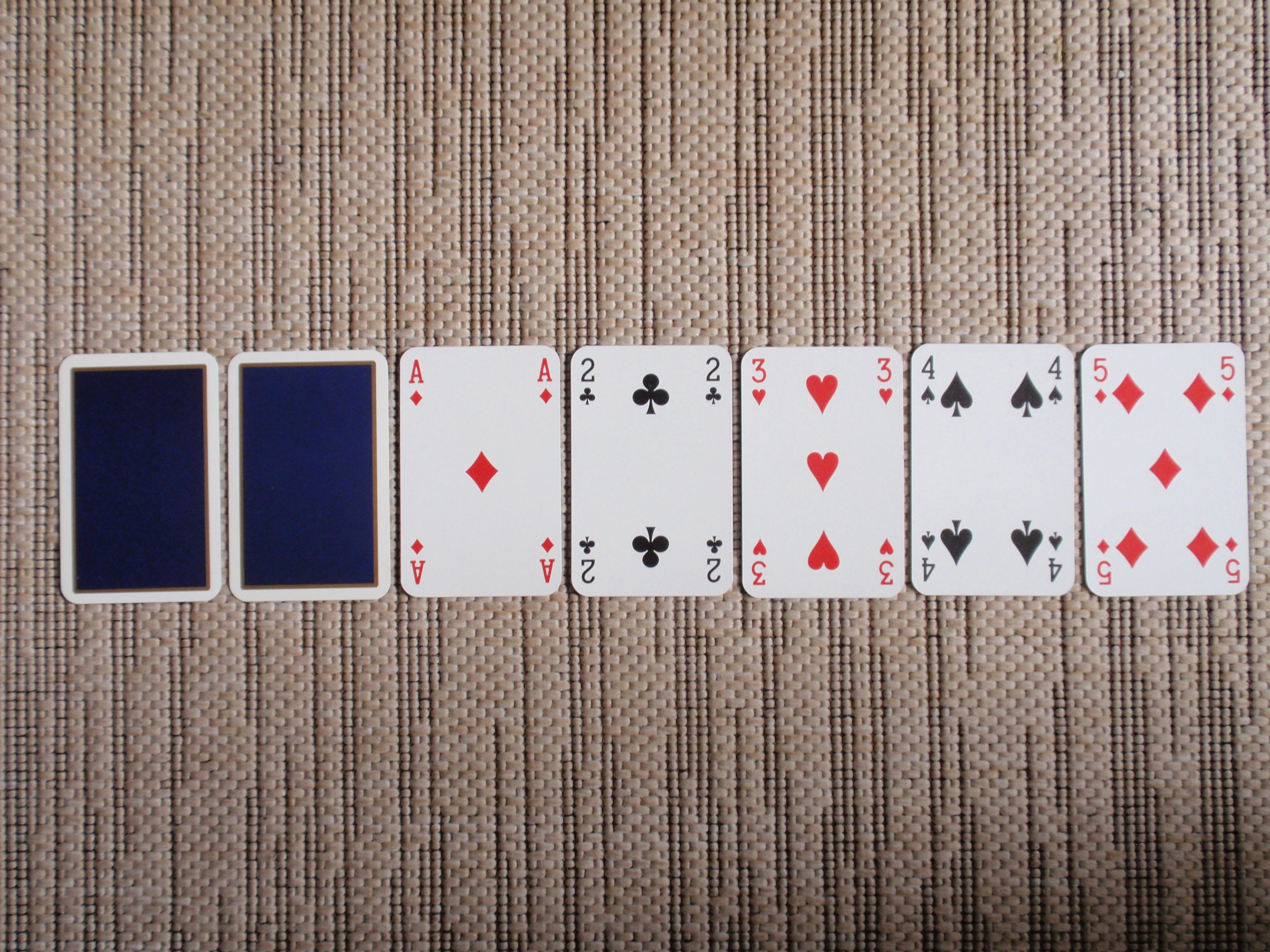 Razz - perfect hand